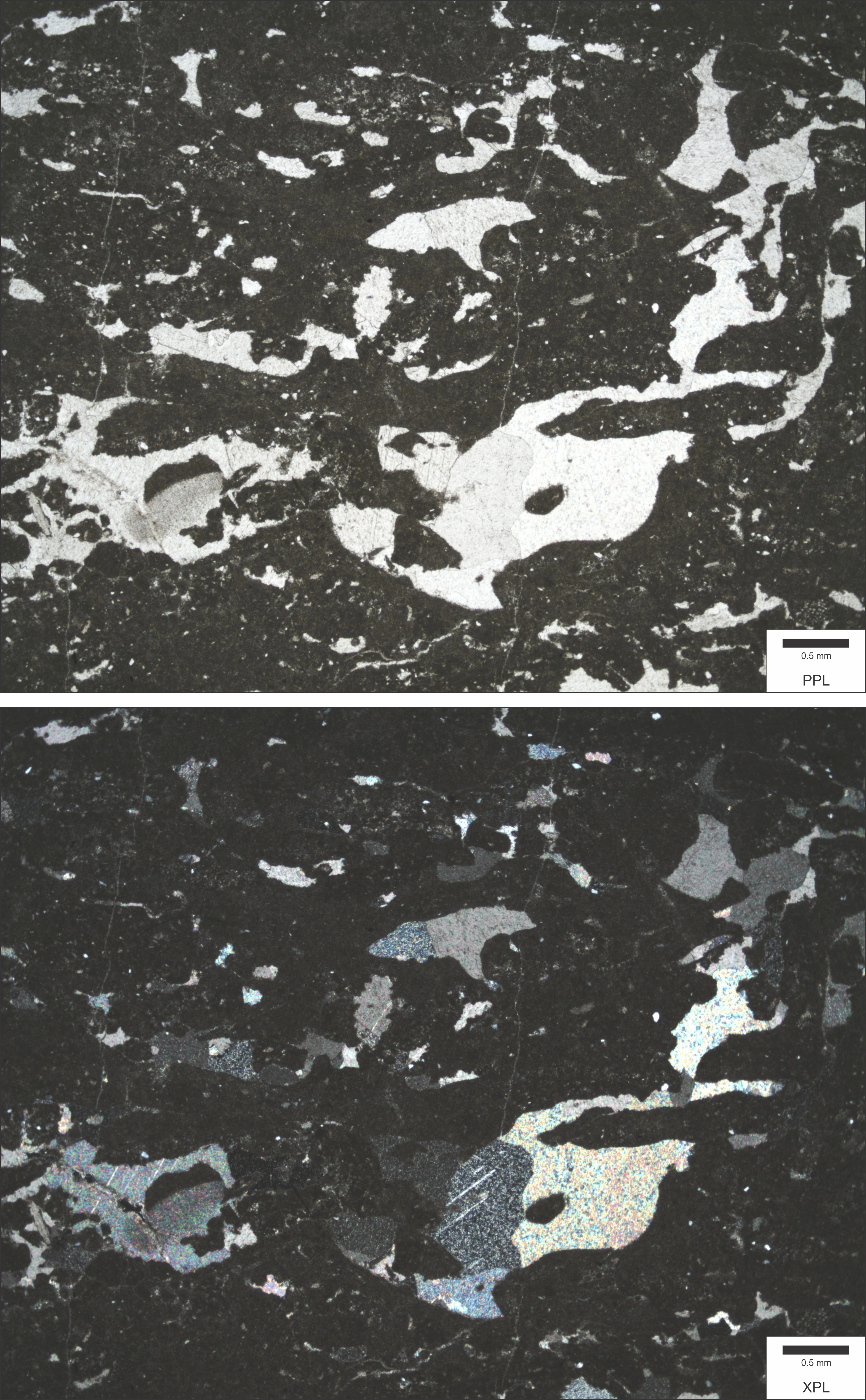 Photomicrograph showing fine-grained, partially recrystallized limestone in plane-polarized light (above) and cross-polarized light (below). This specimen would be classified as a dismicrite using in the Folk (1964) classification scheme or a mudstone using the Dunham classification scheme.